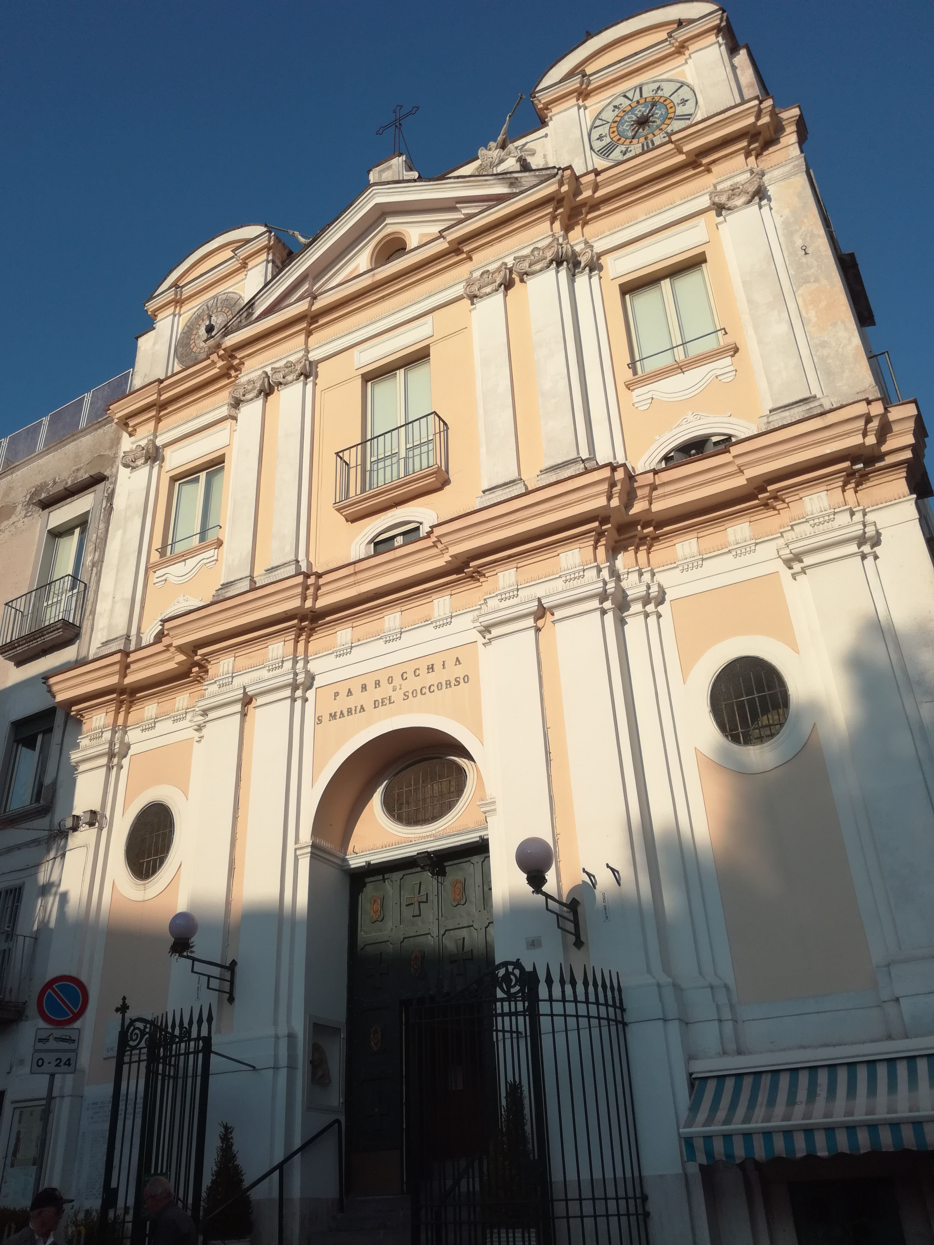 Churh of Santa Maria del Soccorso all'Arenella (Naples)